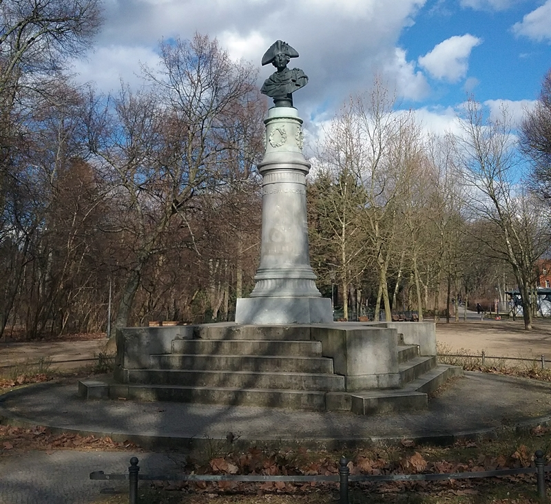 Monument Friedrich II. in the Volkspark Friedrichshain